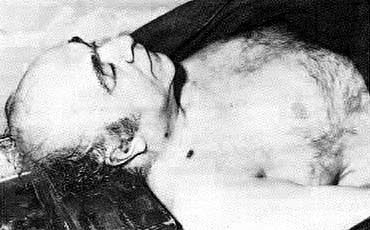 former Prime Minister Amir Abbas Hoveyda, executed 7. April 1979; published in Keyhan and Etelaat.